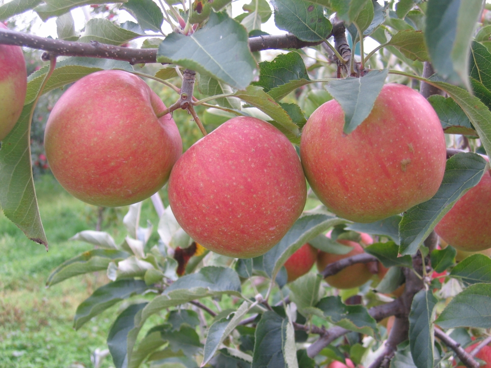 Fruits of Sampion cultivar in orchard, apple